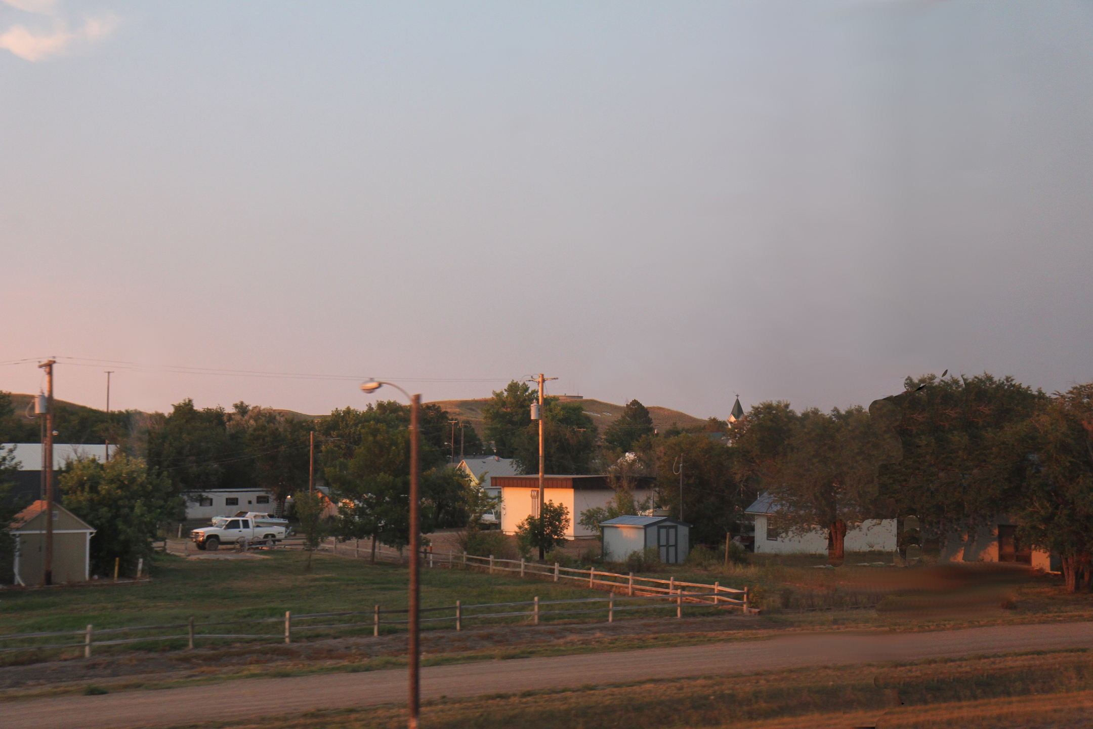 a panorama of Nashua, Montana at sunset from the Empire Builder train.